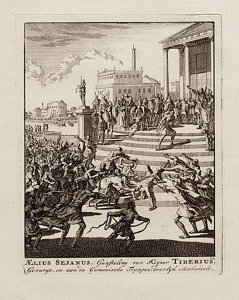 Ælius Sejanus, gunsteling van Keyser Tiberius, etching by Jan Luyken.